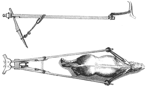 Maataloustyökalu hankoaura eli aatra eli sahrat. Old Farming tool from Eastern Finland from 18th century.